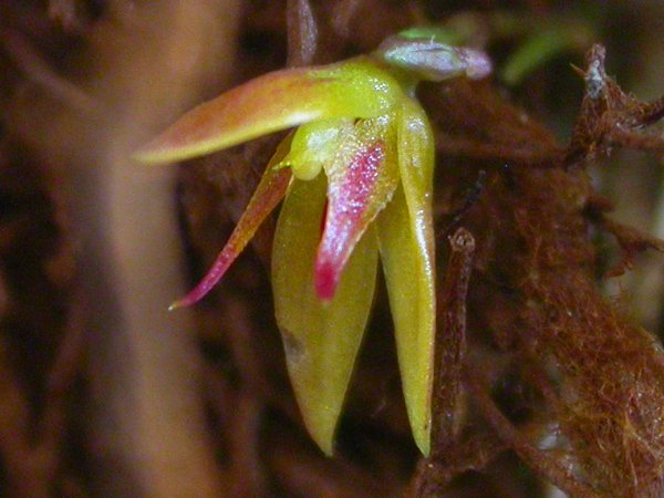 Anathallis lobiserrata